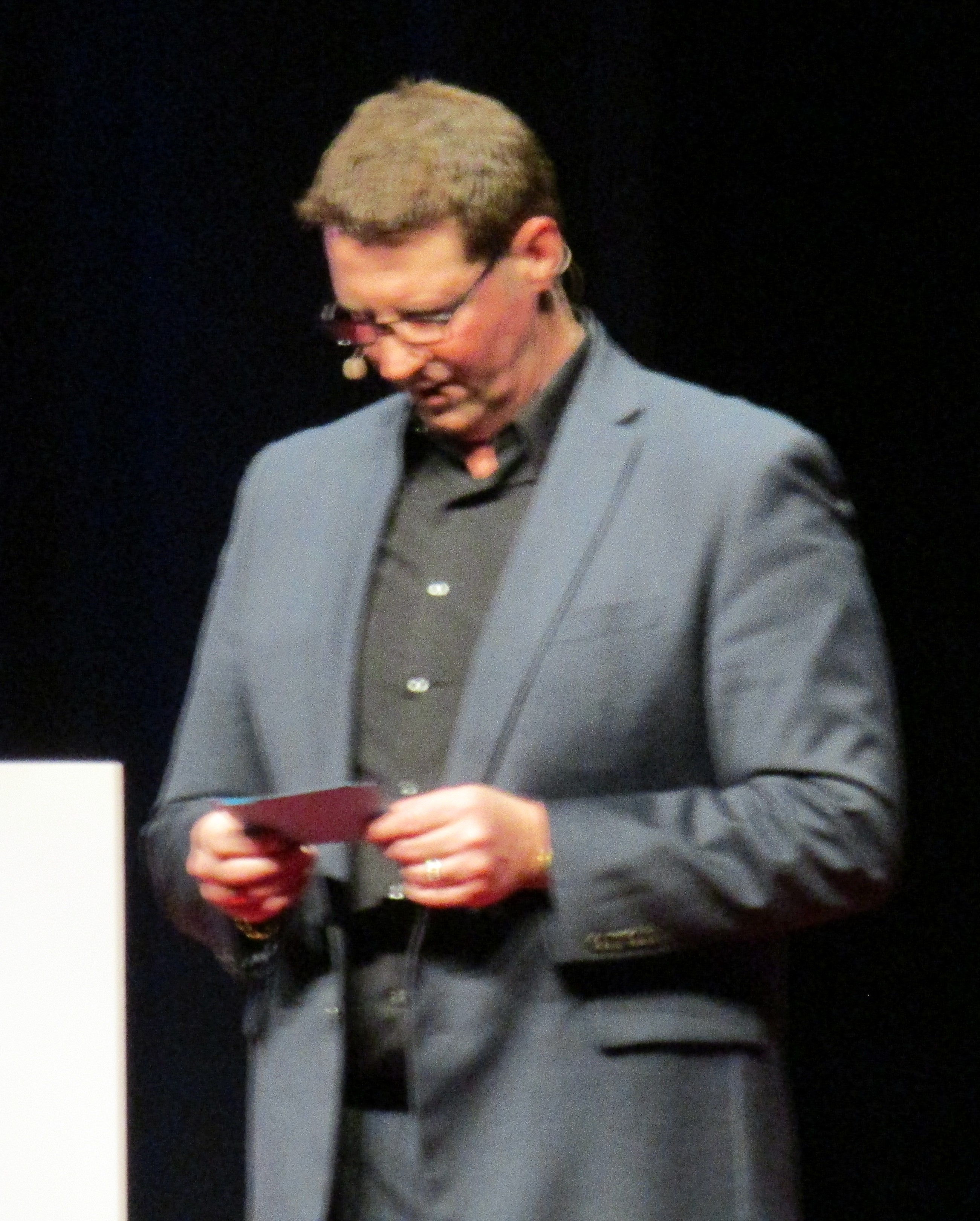 Troy Dunn, the emcee for TEDxBYU in 2018.